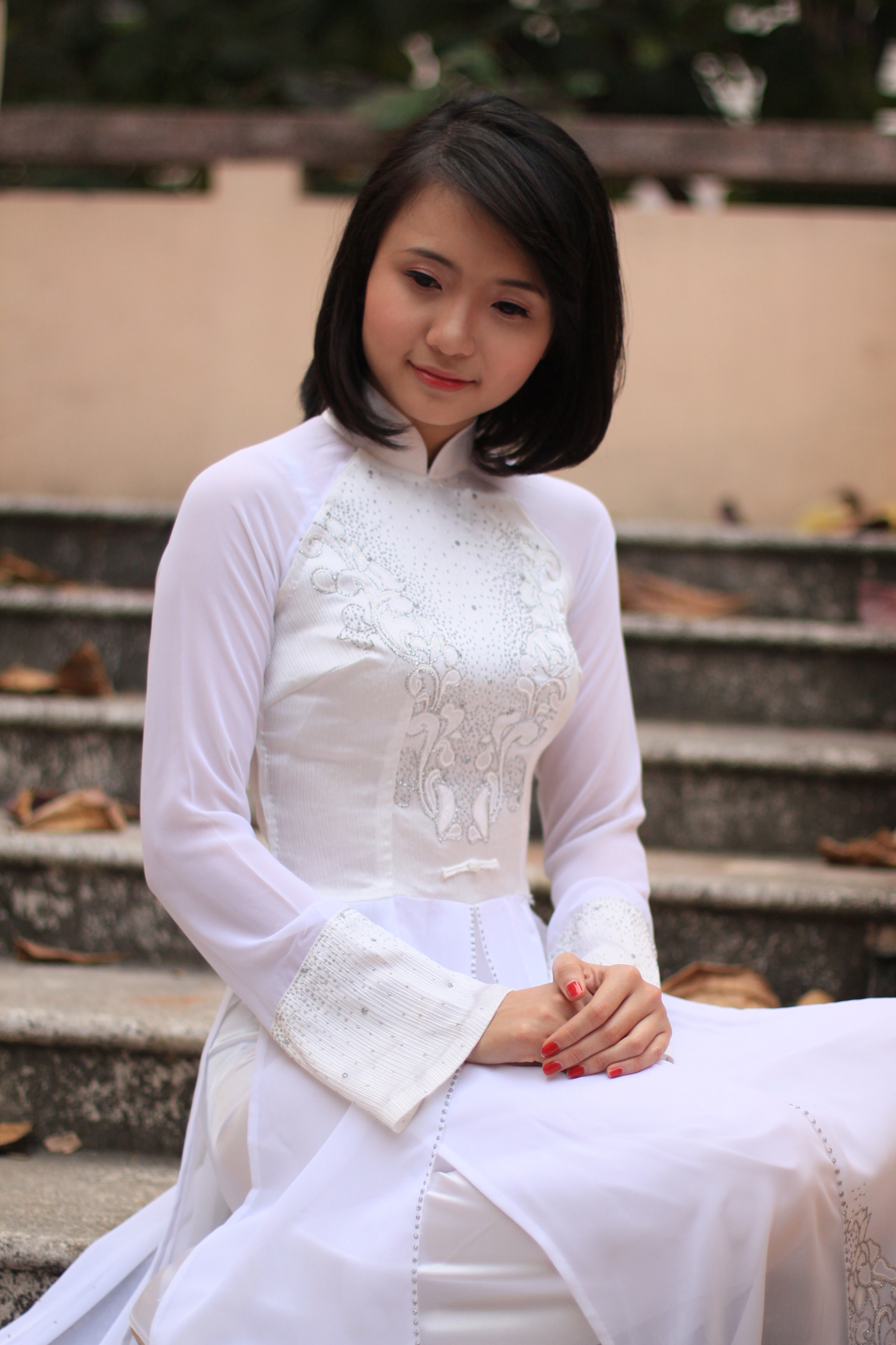 Áo dài